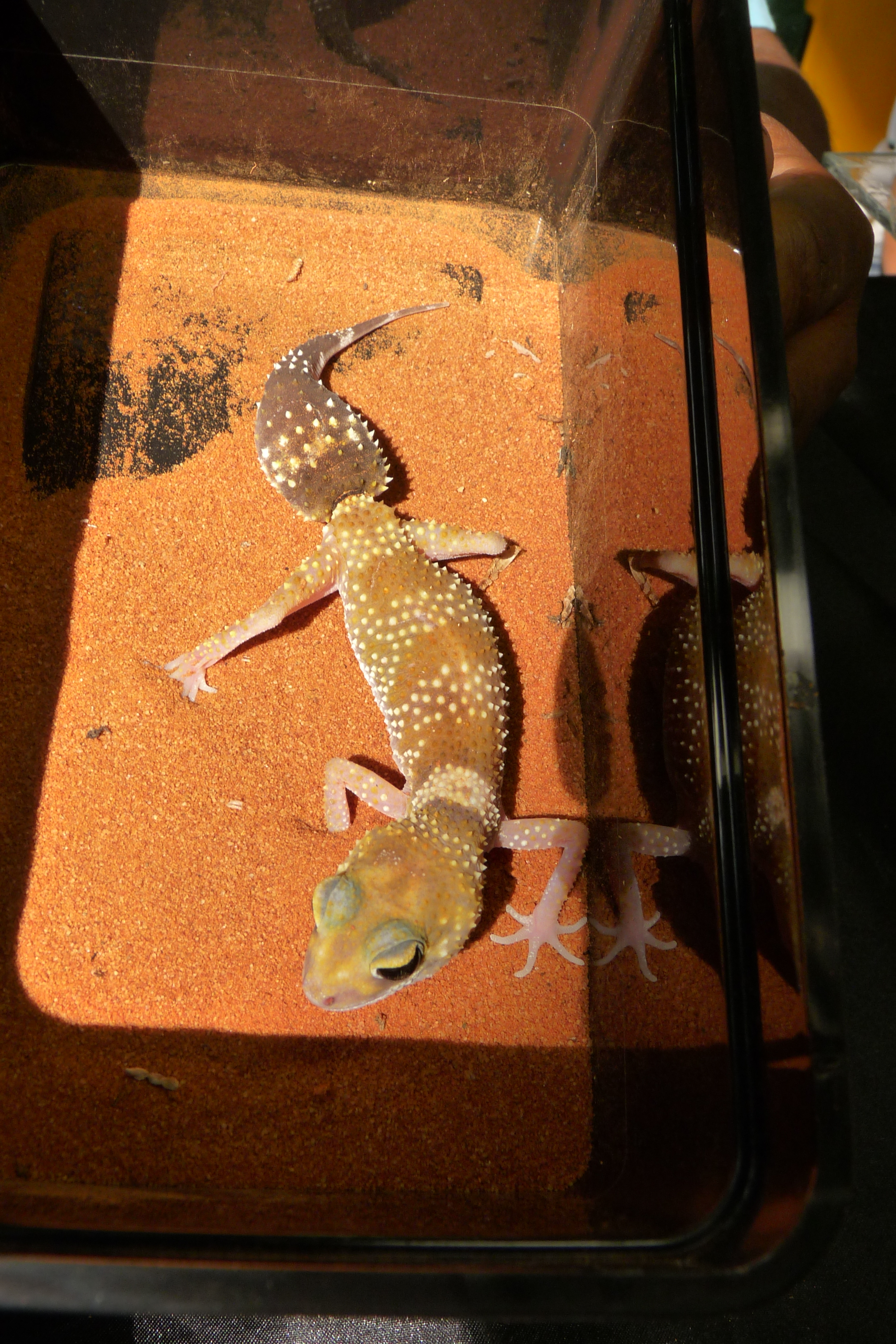 Nephrurus levis in captivity.